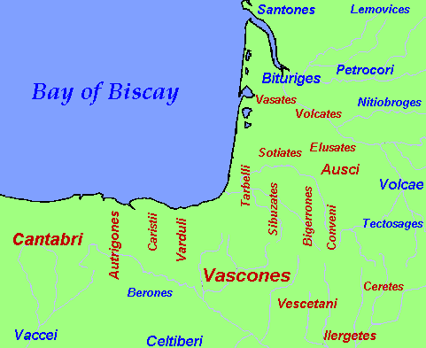 Geographic location of the basque tribes